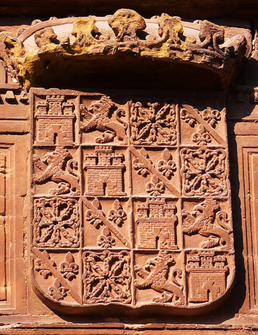 Arms of Castile-Leon and Navarre in Sta. Maria la Real of Najera